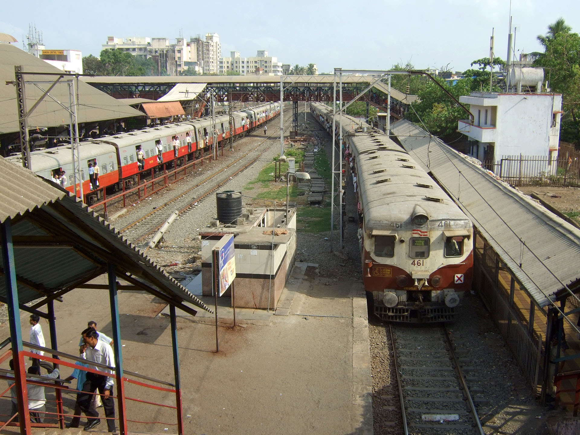 BANDRA Railway Station in Mumbai